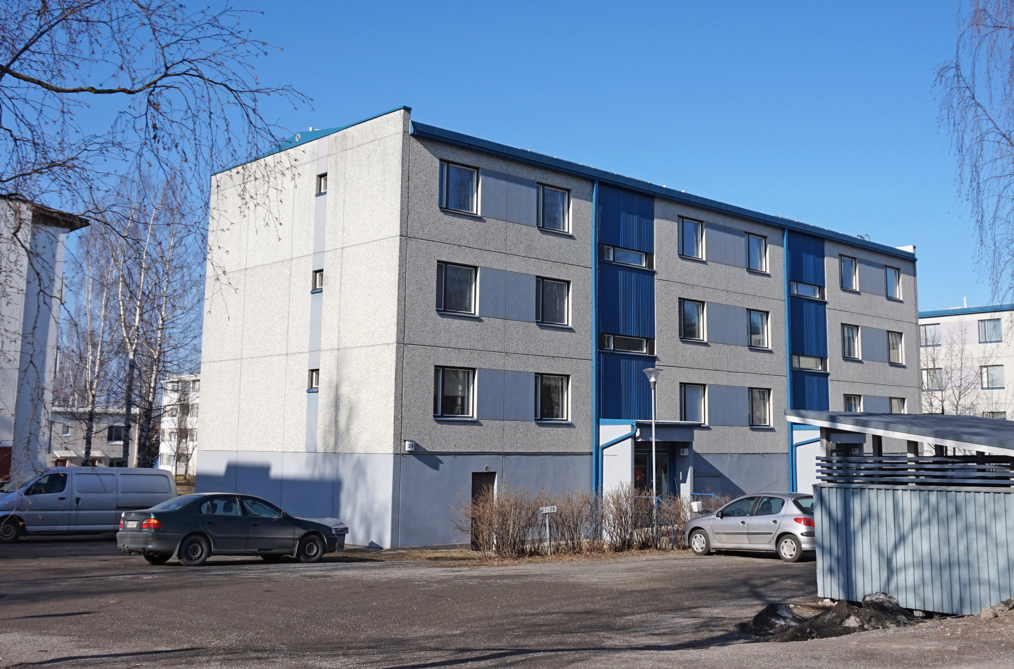 Building on the street Vaajakoskentie, Jyväskylä.This photograph was taken with a Sony ILCE-5000